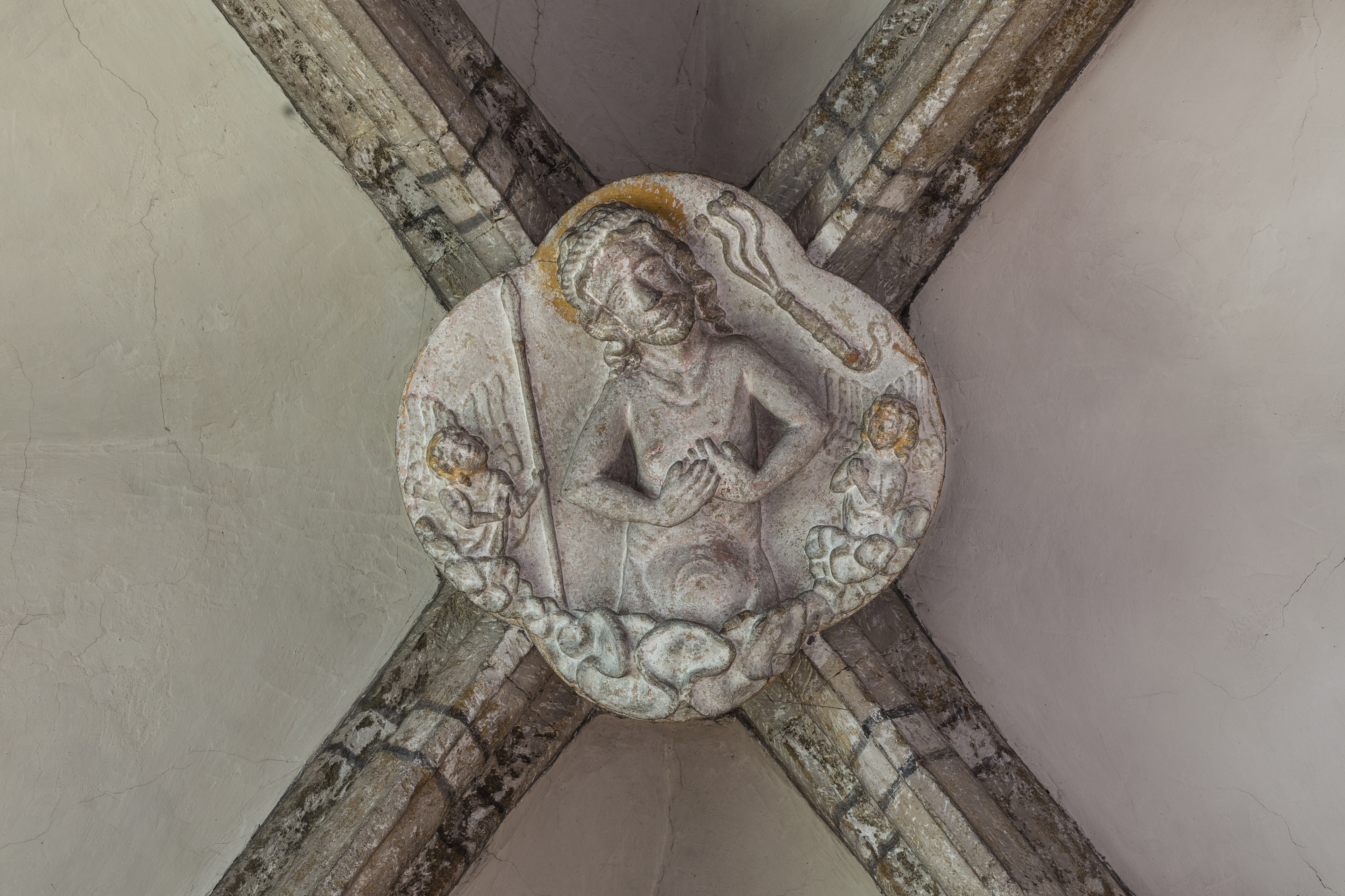 The vault of the chapel of Wallsee family in the parish church of Enns, Upper Austria, has some rich carved key stones. This one is located directly above the altar of the chapel.